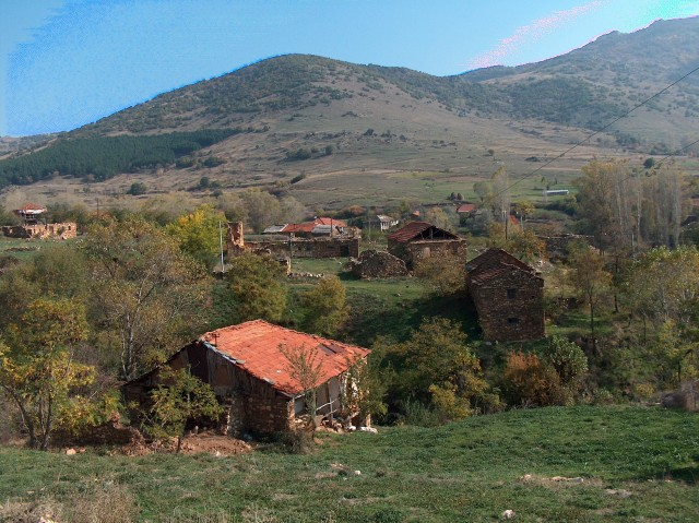 View of Bonče, Prilep Municipality, Macedonia